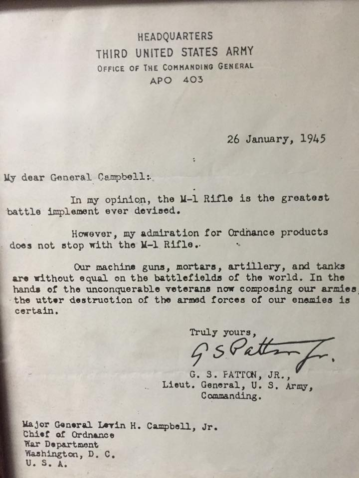 Picture of letter.